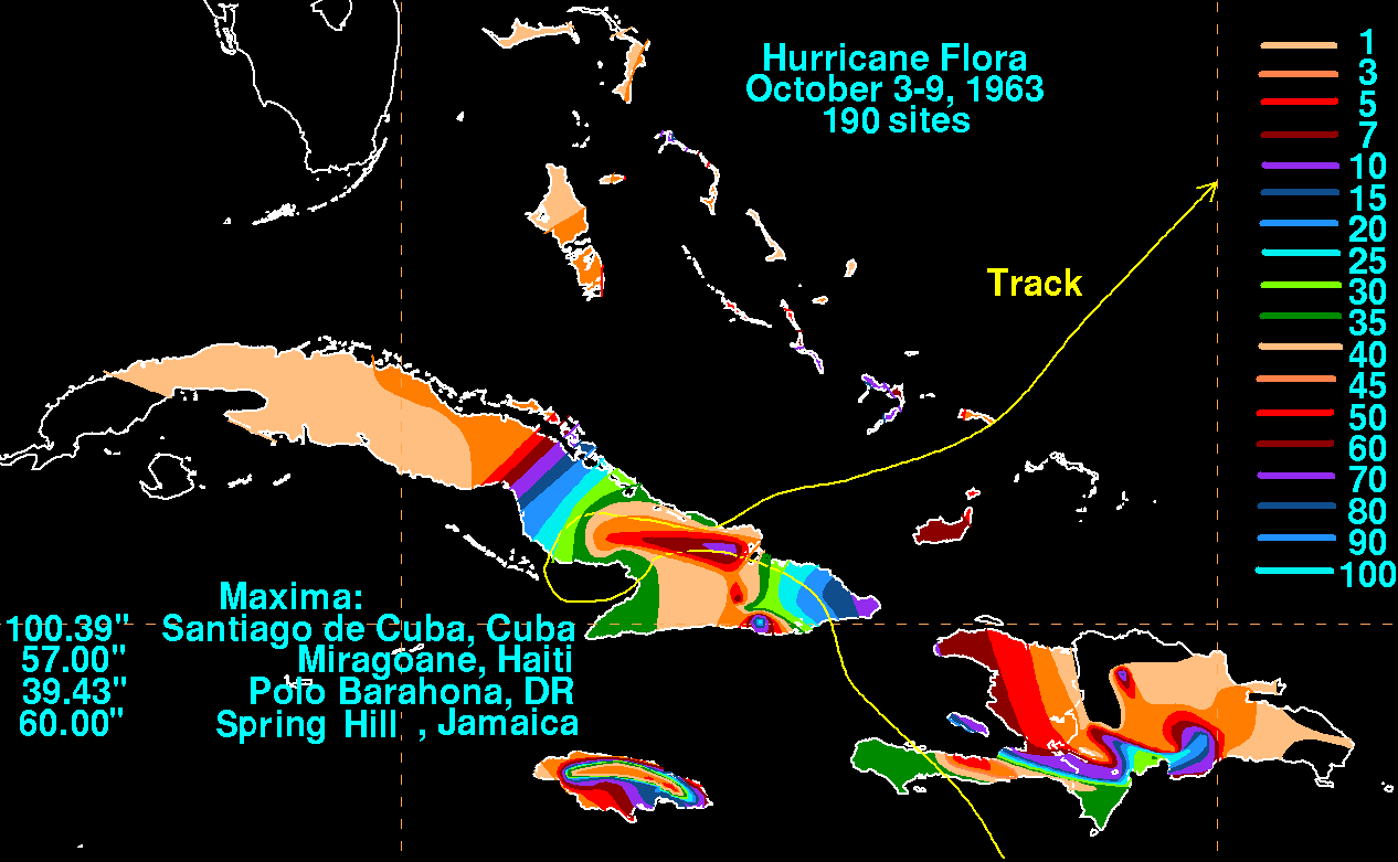 Storm total rainfall for Hurricane Flora of September/October 1963